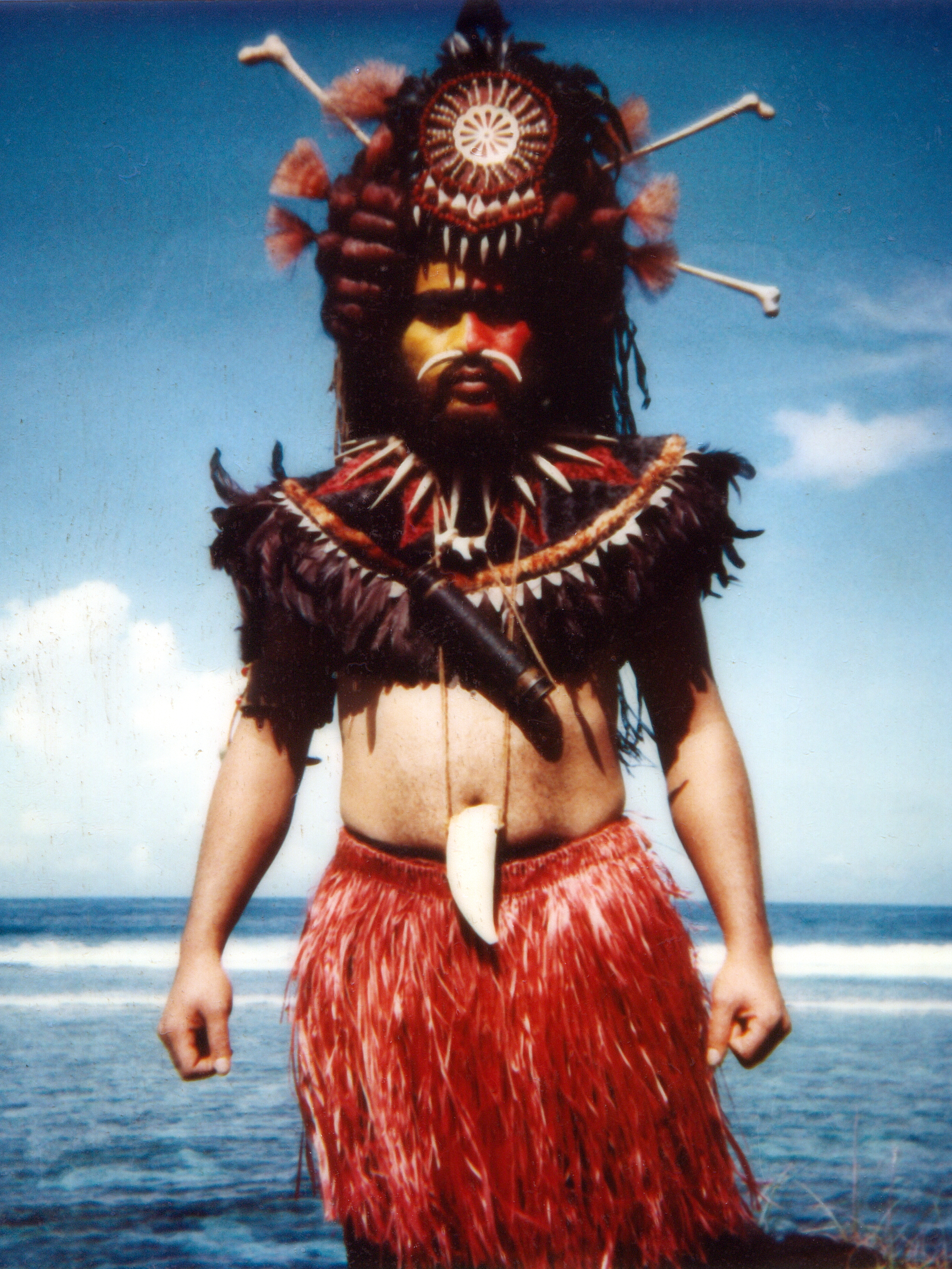 Native head-piece created by Peter Kravchenko for Uelese Petaia — in the role of the native Tararo in the ABC-TV production "Coral Island", filmed in 1981 and first broadcast in 1983.